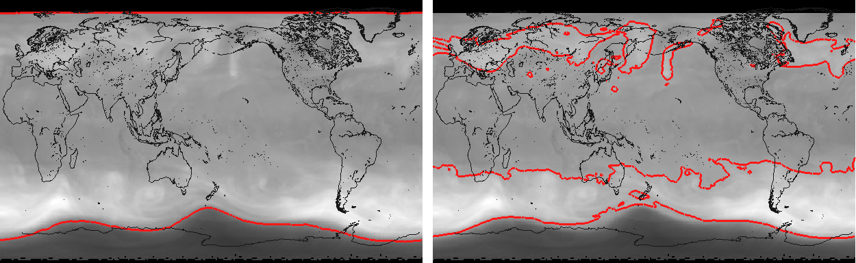 Isolines of the ozone dataset